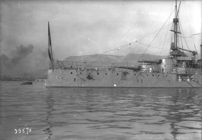 Battleship Courbet in Toulon harbour